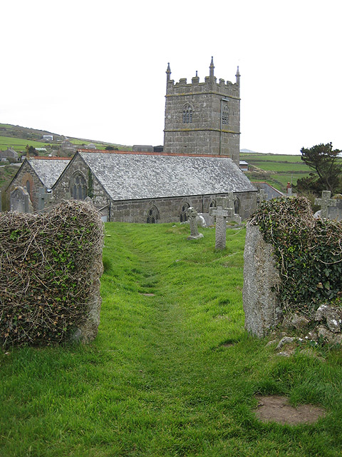 St Senara's Church, Zennor The parish of Zennor is named after Saint Senara to whom the church is dedicated.